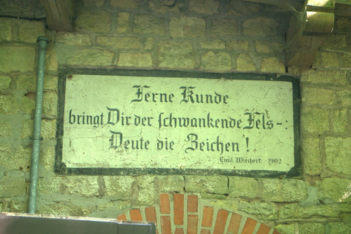 Inscription above the entry of the seismological station "Wiechert’sche Erdbebenwarte" in Göttingen, Germany